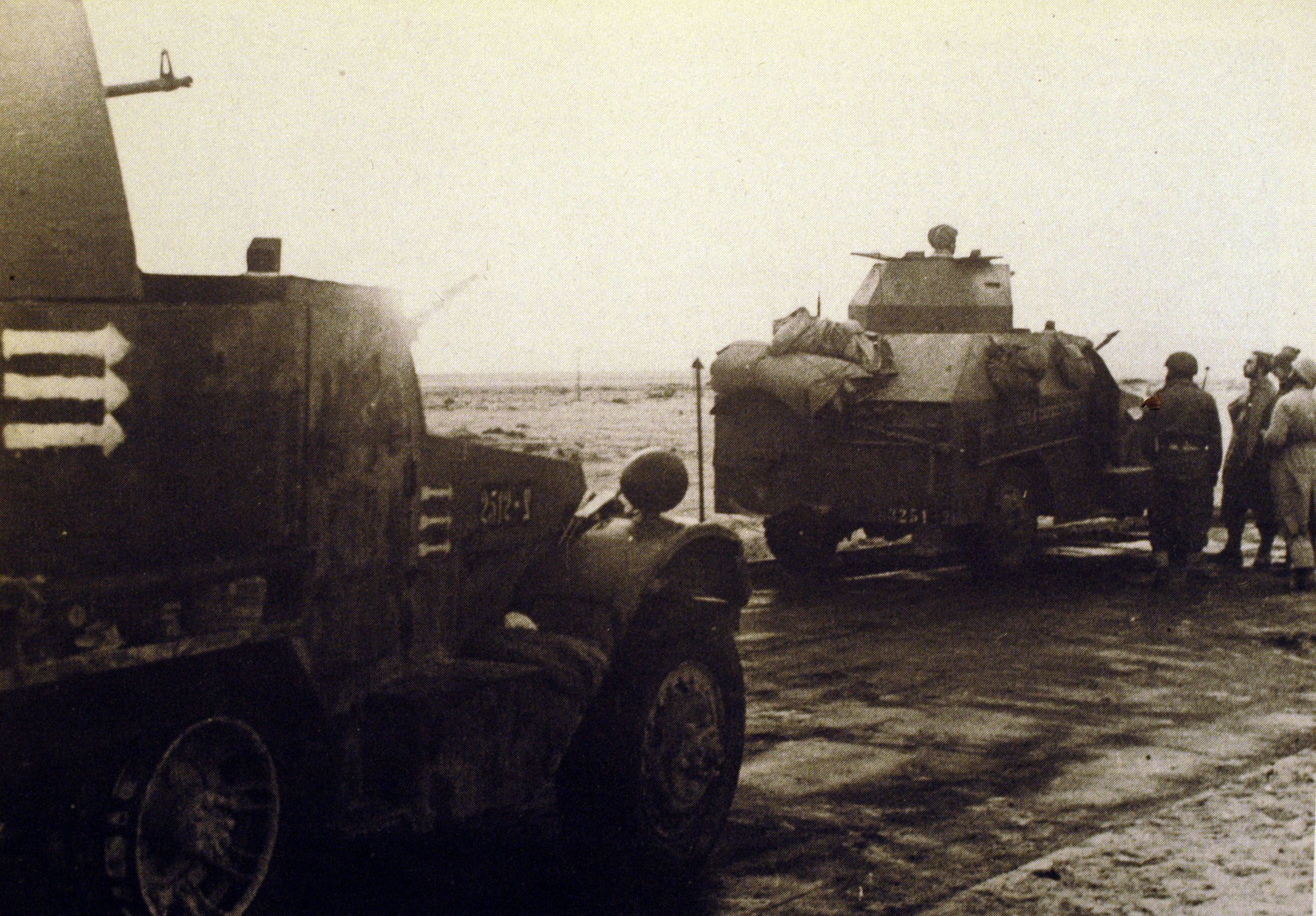 Israeli troops in an assortment of American and locally built armoured fighting vehicles approach the Israeli-Egyptian border, Sinia, 1948.